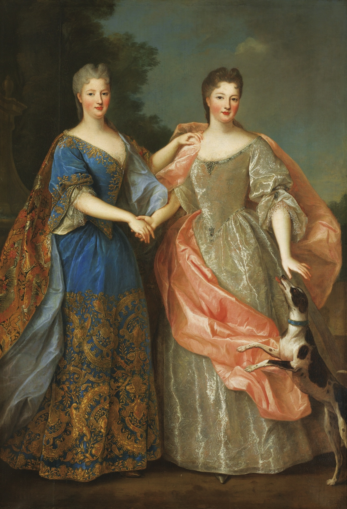 Presumed portrait of Françoise Marie de Bourbon (1677-1749) and her sister Louise Françoise (1673-1743)